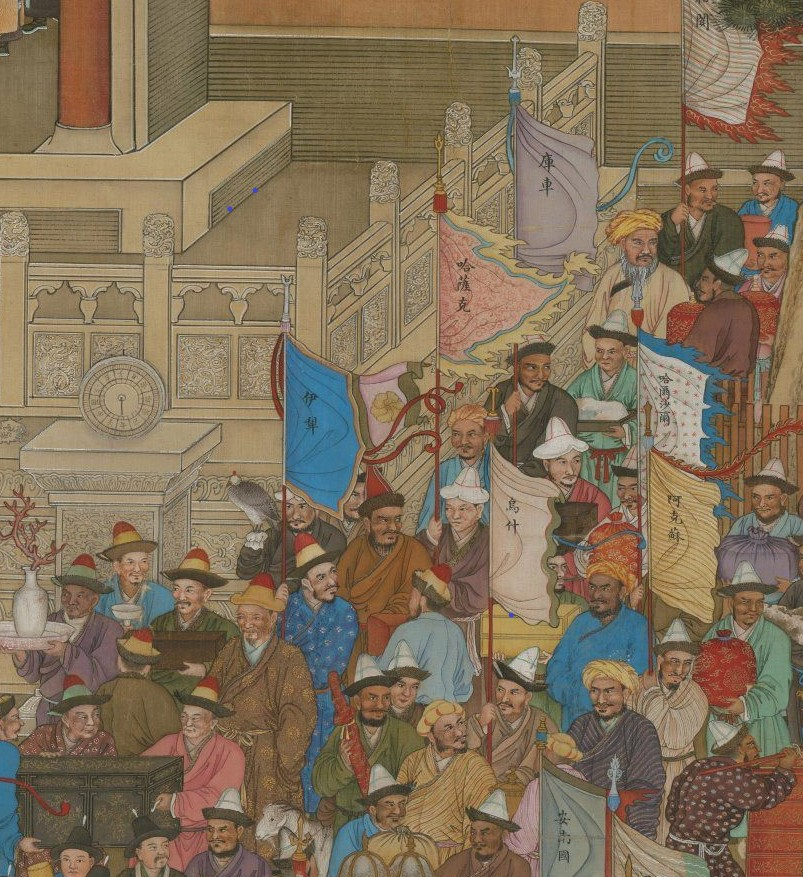 Wan Guo Lai Chao Tu (萬國來朝圖) or "The tribute visit of 10,000 nations" is a Qing dynasty painting by unknown author. It describes the annual tribute missions of foreign delegations to the Qing court in Beijing, China during the New Year's Day. The painting is currently at the Beijing Old Palace Museum.